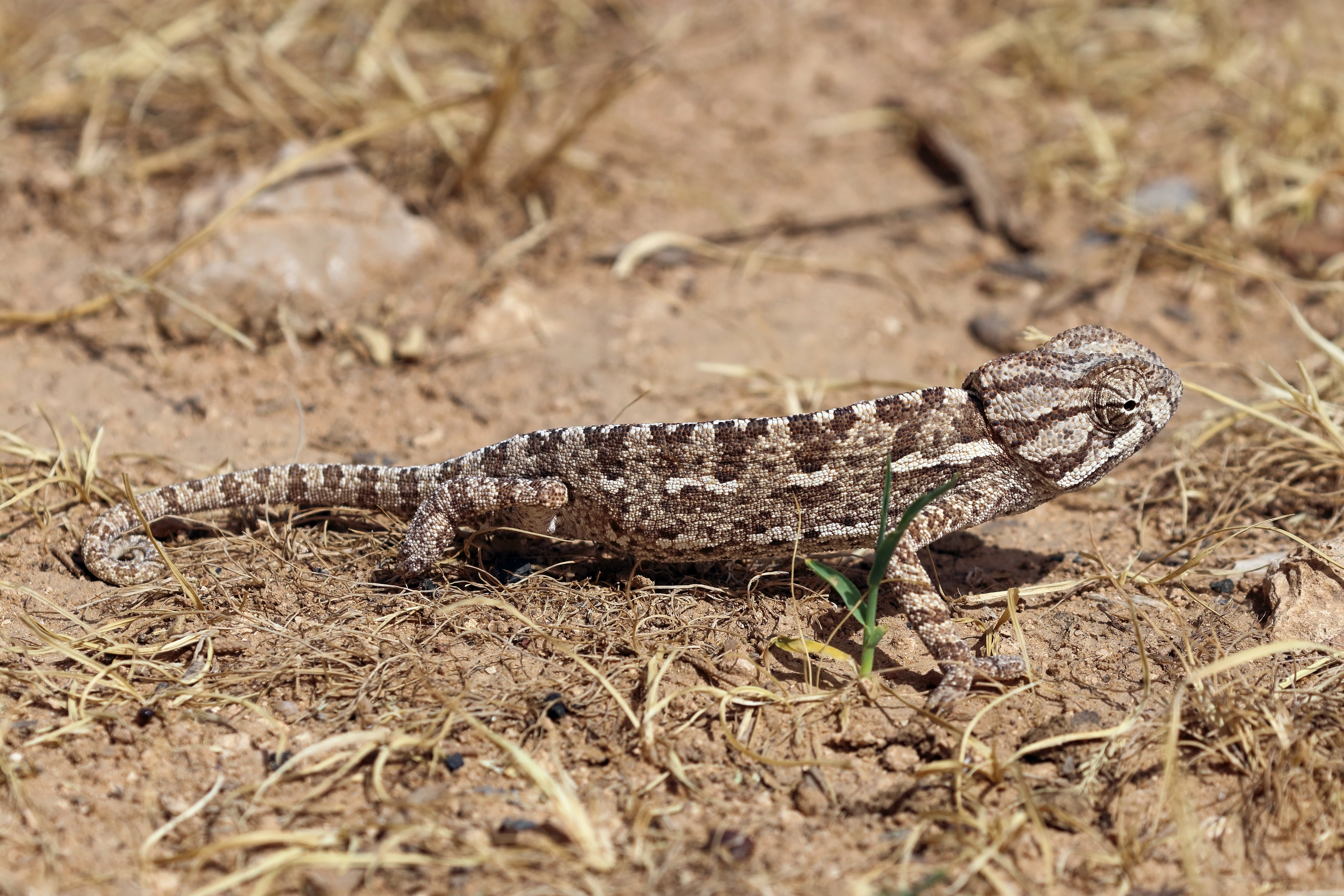 Mediterranean chameleon (Chamaeleo chamaeleon recticrista), Dana Biosphere Reserve, Jordan